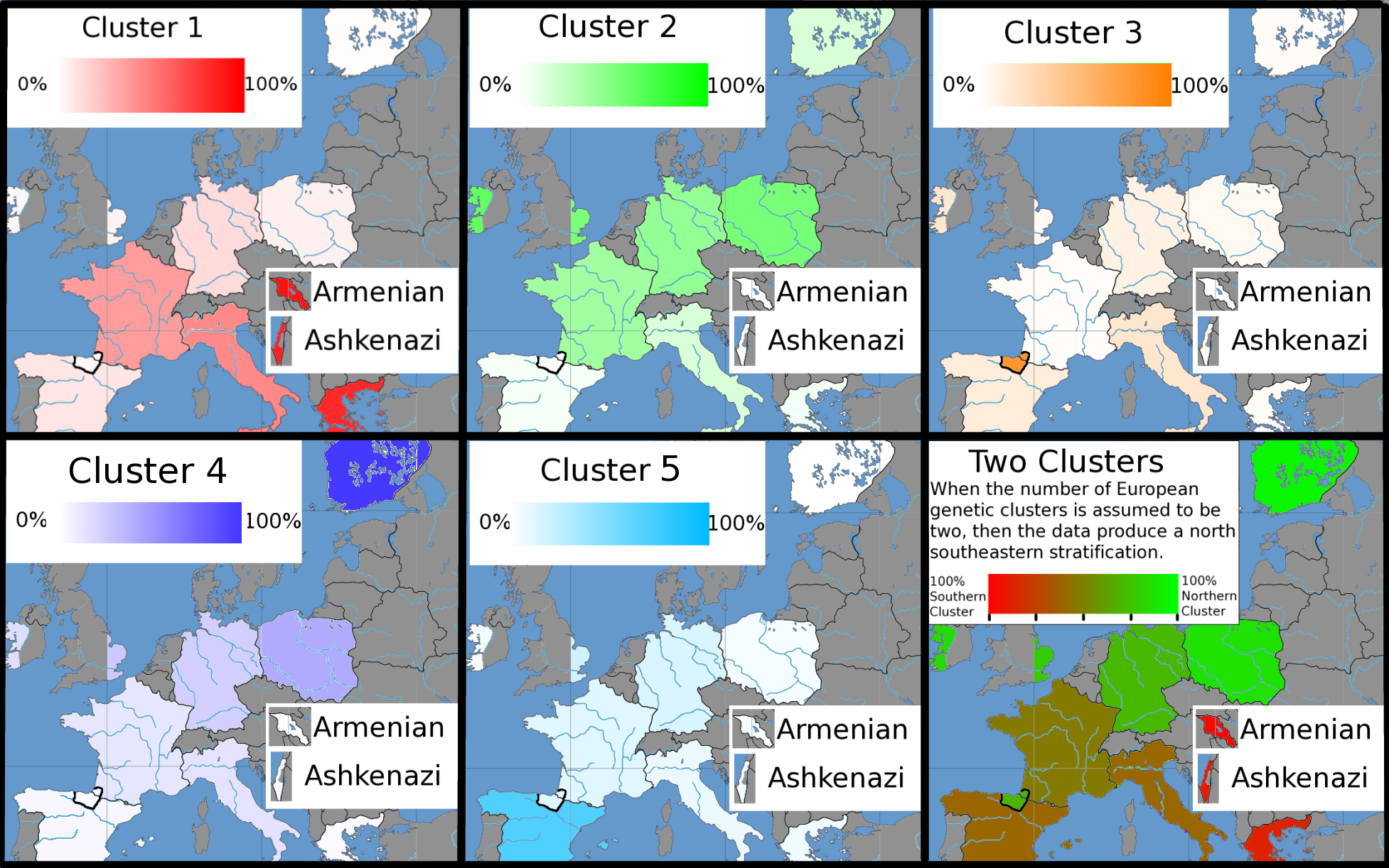 Population genetic structure of Europe, population membership by geography. Bauchet's 5 clusters represented as colour intensity profiles on a map of Europe.